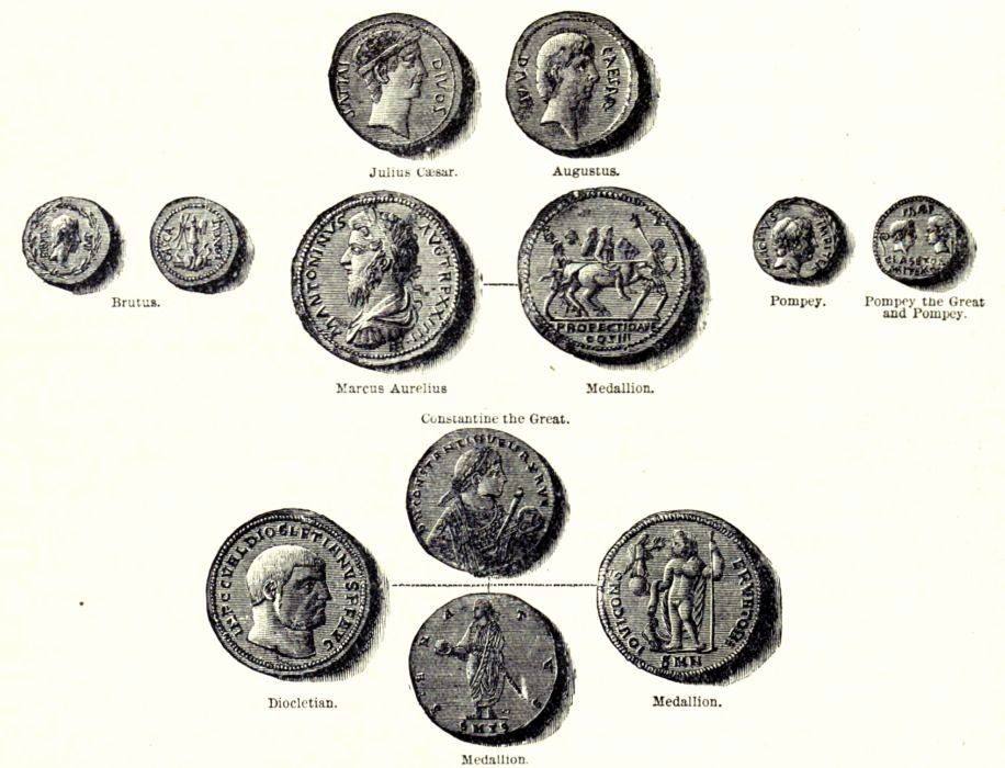 Coins of the Roman Replic and Empire - from Cassell's History of England, Vol. I - anonymous author and artists